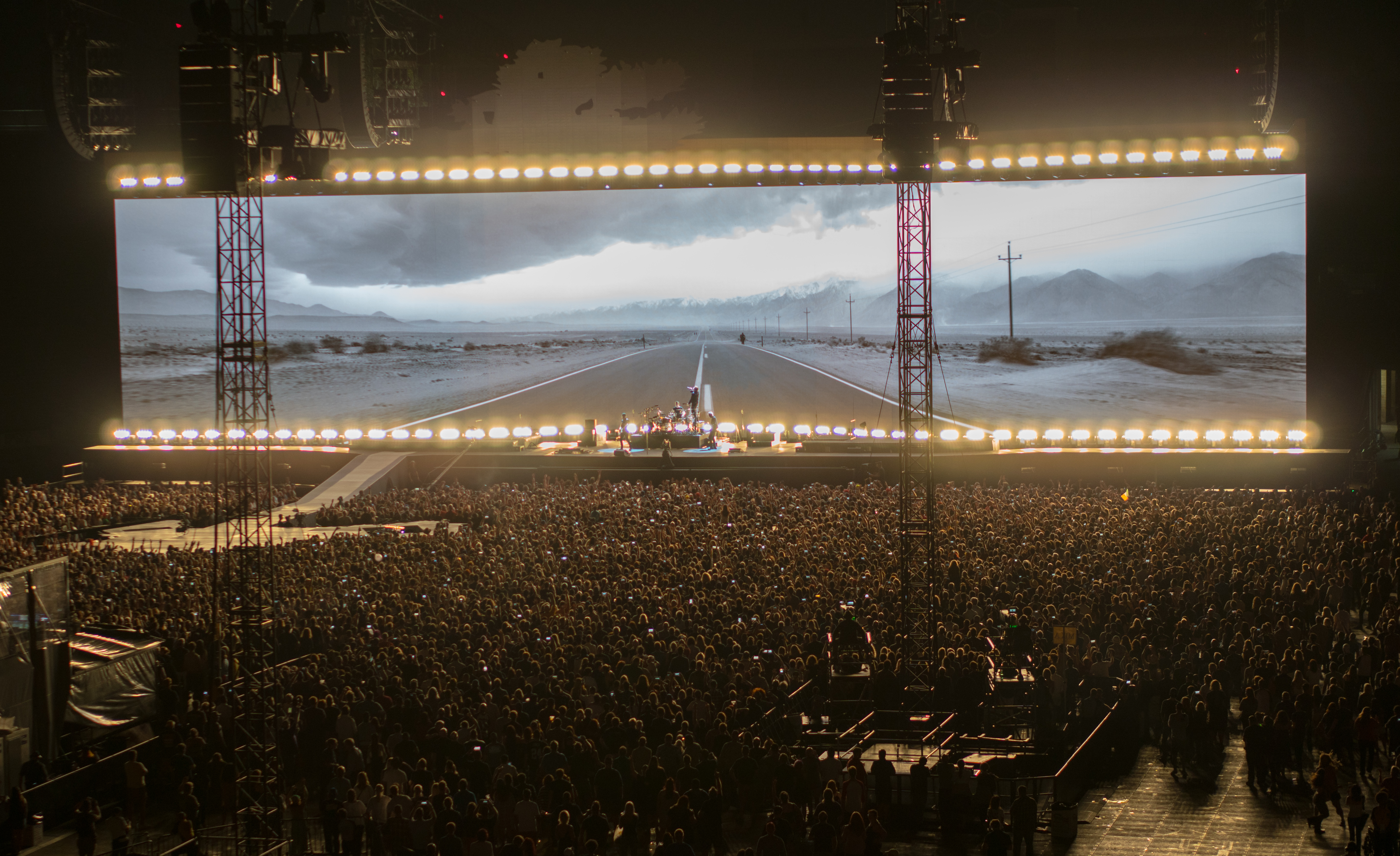 U2 performing "Where the Streets Have No Name" during the Joshua Tree Tour 2017 at the Rose Bowl in Pasadena, CA on May 21, 2017